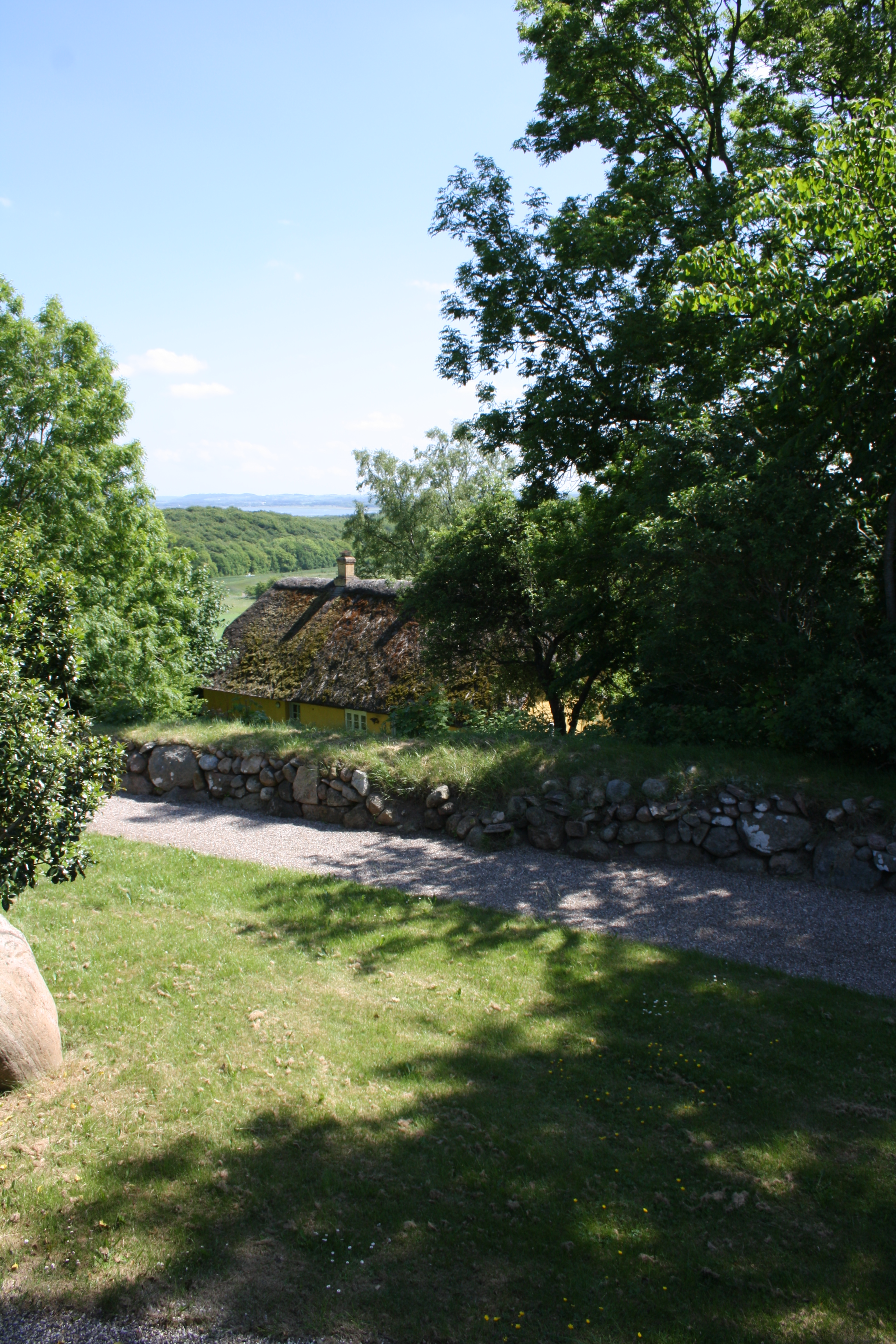 Stovring behind the church